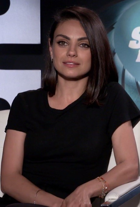 Mila Kunis and Kate McKinnon in an interview for ColliderVideo in 2018